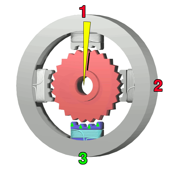 Illustration of a stepper motor. Created by Wapcaplet using Blender and the GIMP.